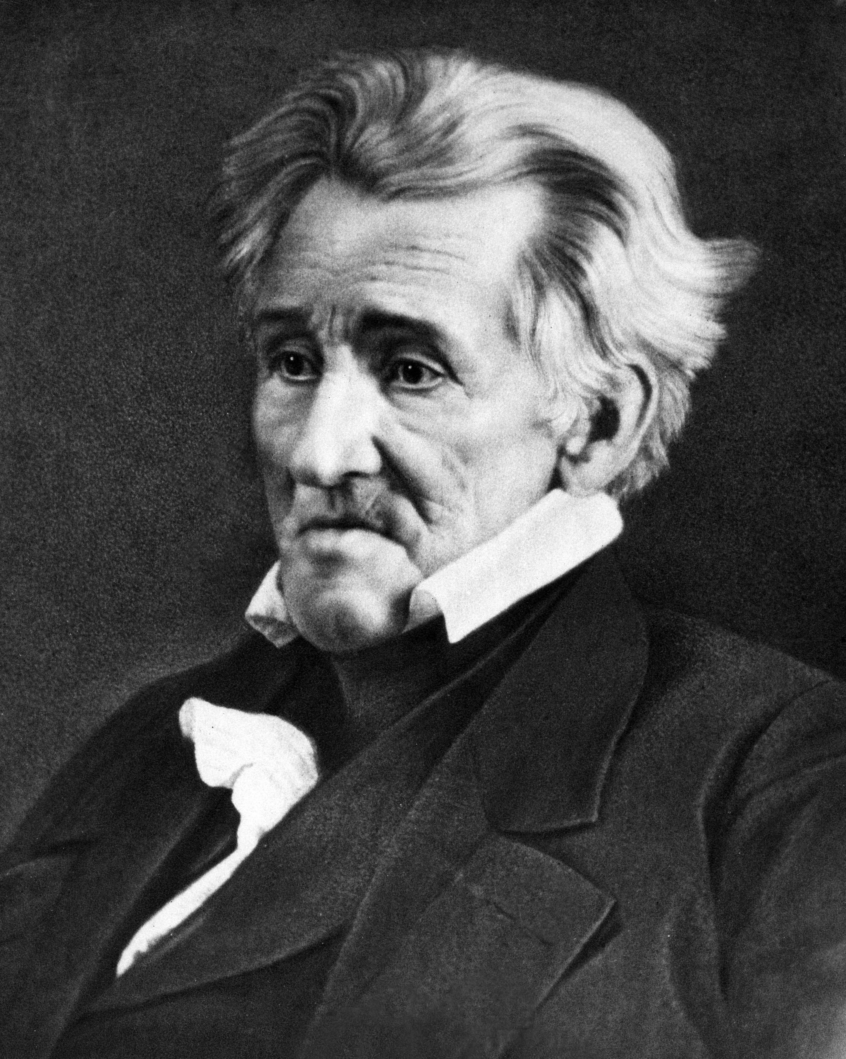 Former US President, Andrew Jackson, in 1845, months before his death. (age 78) This is a retouched picture, which means that it has been digitally altered from its original version. Modifications: cropped, adjusted black level, removed artifacts.